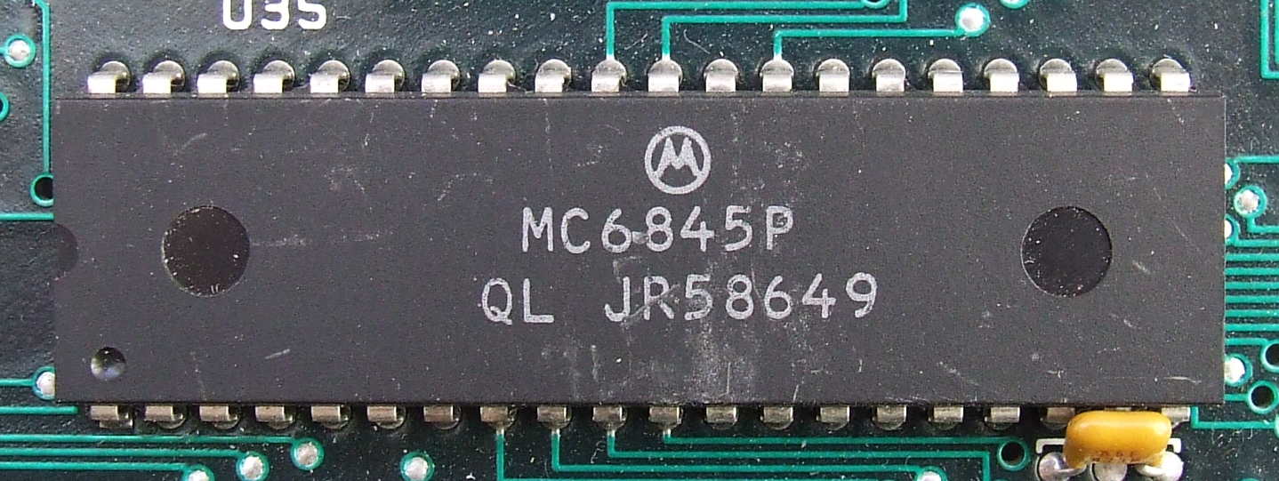 Motorola MC6845P video address generator of an IBM Monochrome Display Adapter (4 KB).